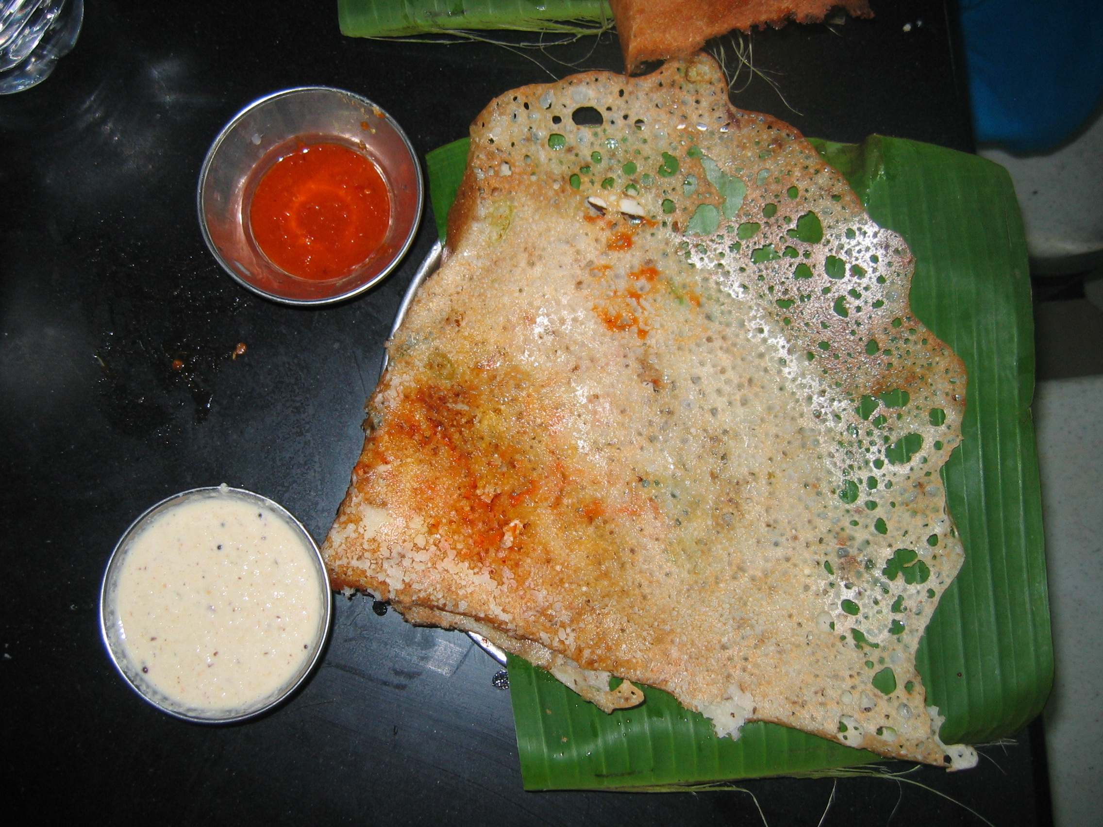 Ravvadosa, a breakfast item, prepared and served at a well known Hotel in Guntur City of India.